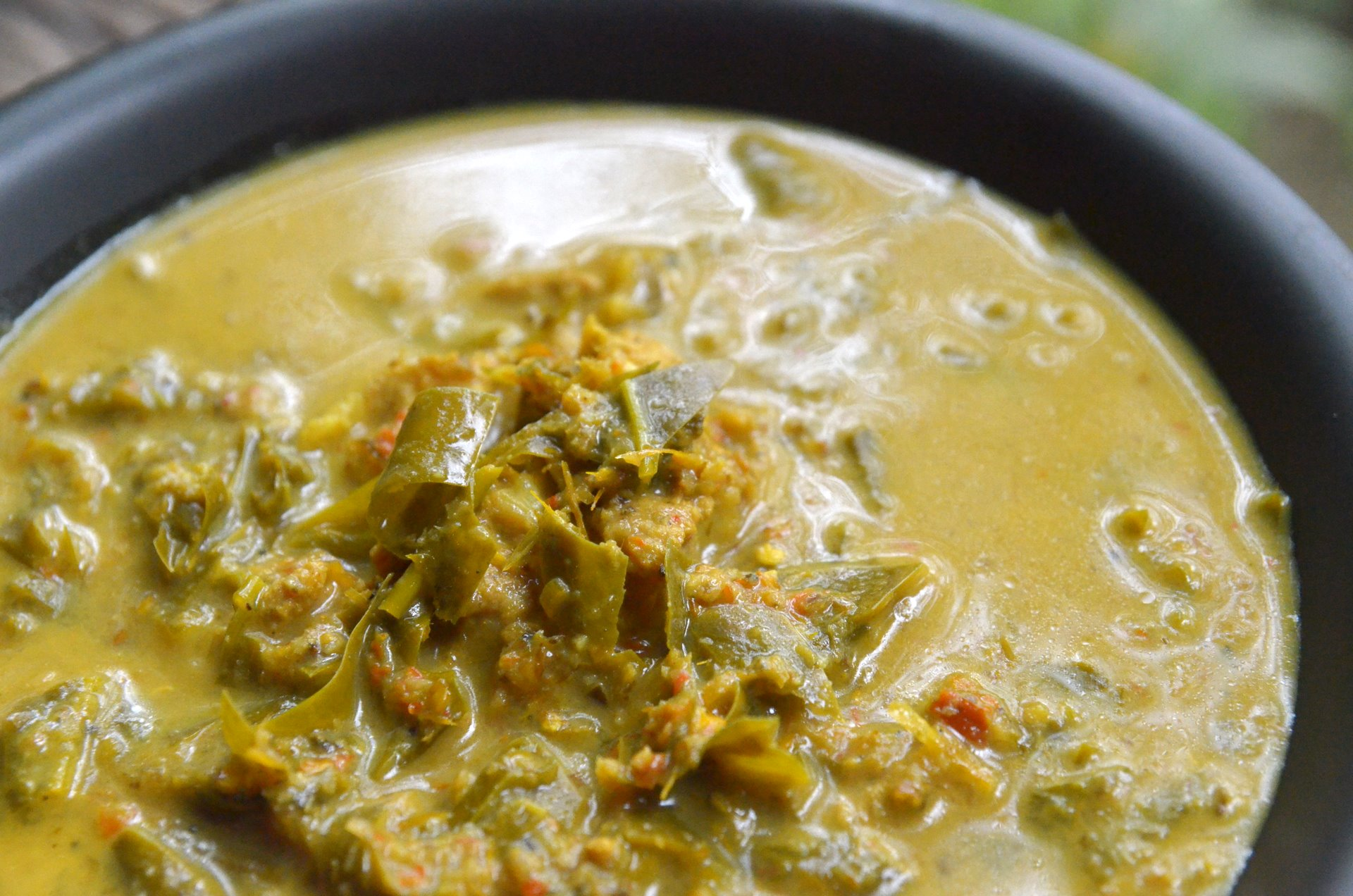 Kaeng khua mu bai chamuang (Thai script: แกงคั่วหมูใบชะมวง) is a thick central Thai curry with pork and bai chamuang, the leaves of the Garcinia cowa, a tree related to the mangosteen.